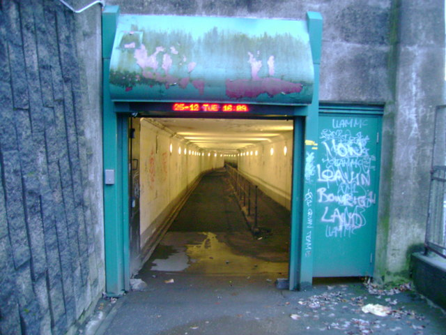 Clyde Tunnel pedestrian entrance This is the northern entrance to the eerie and graffiti daubed pedestrian tunnel on the east side of the road tunnel. The date shown on the digital display was accurate, but the time was not.